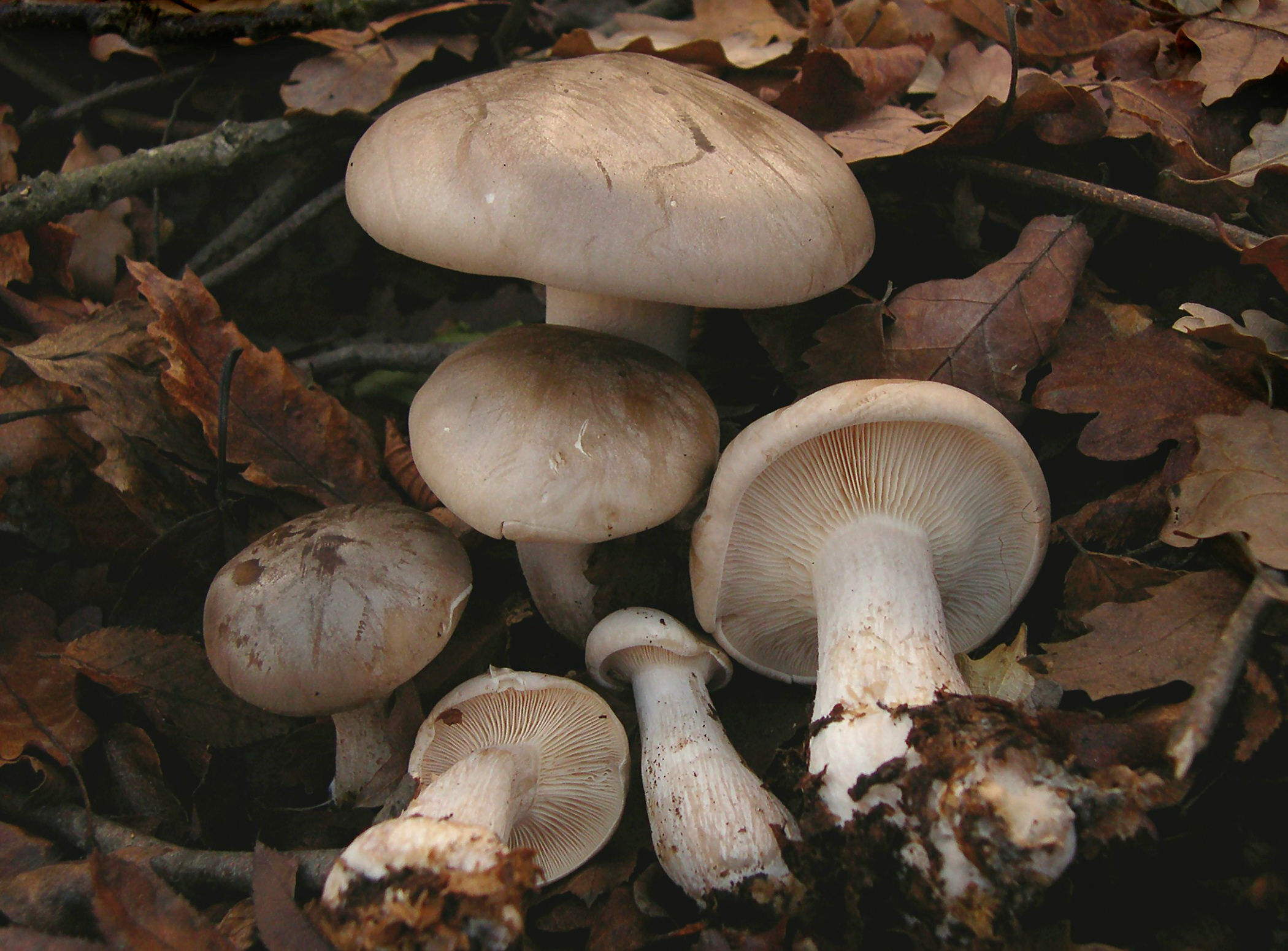 Clouded Funnel (Clitocybe nebularis)